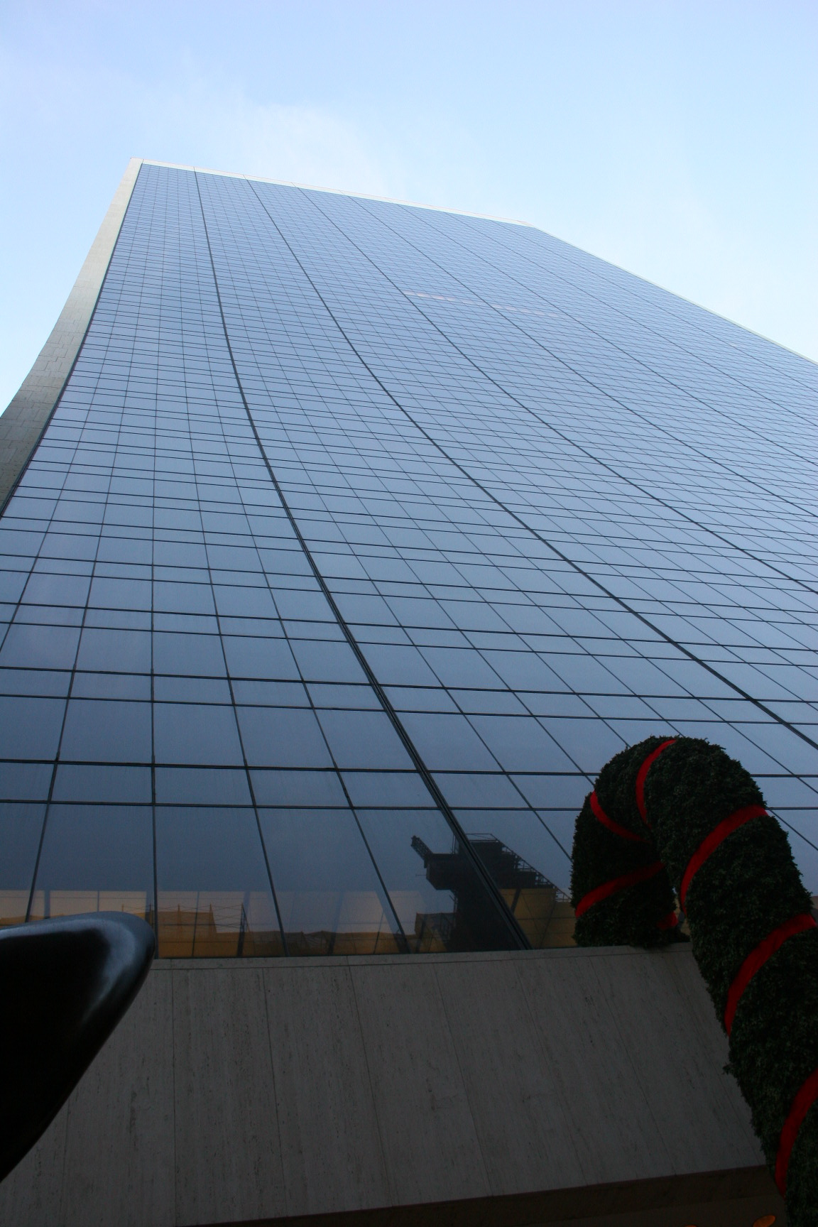 The Solow Building, New York